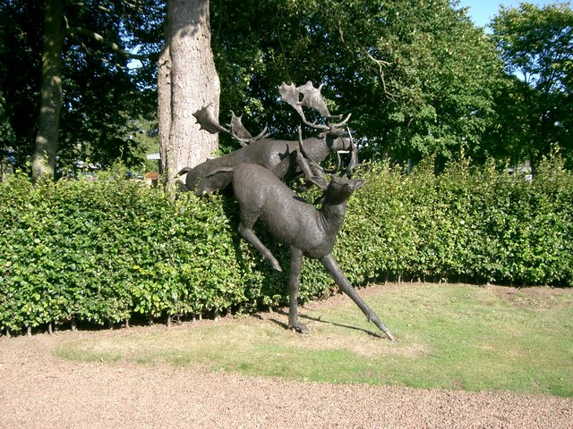 Sculpture "Dear Leap"(1988) by David Annand. At Dundee Technology Park.